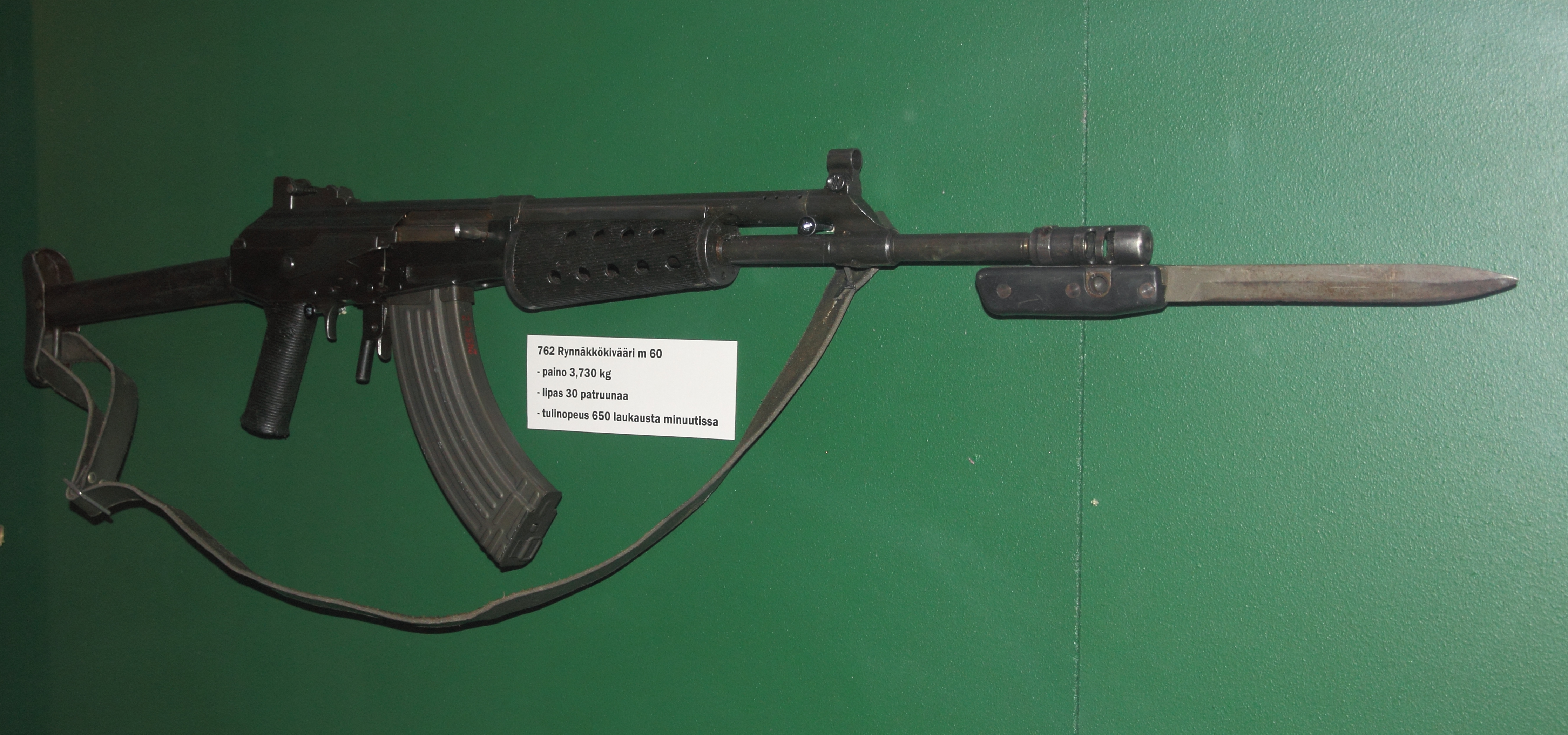 Finnish 7,62 mm model 60 assault rifle with bayonet. This was the model 62 pre-series. Photographed in Mikkeli Infantry museum.